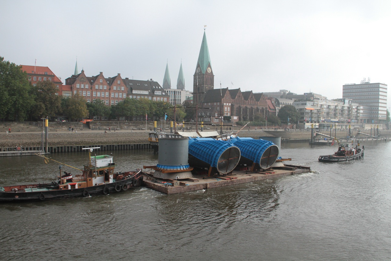 Delivery of the two S-tubes for the hydroelectric power plant on the river Weser in Bremen, Germany